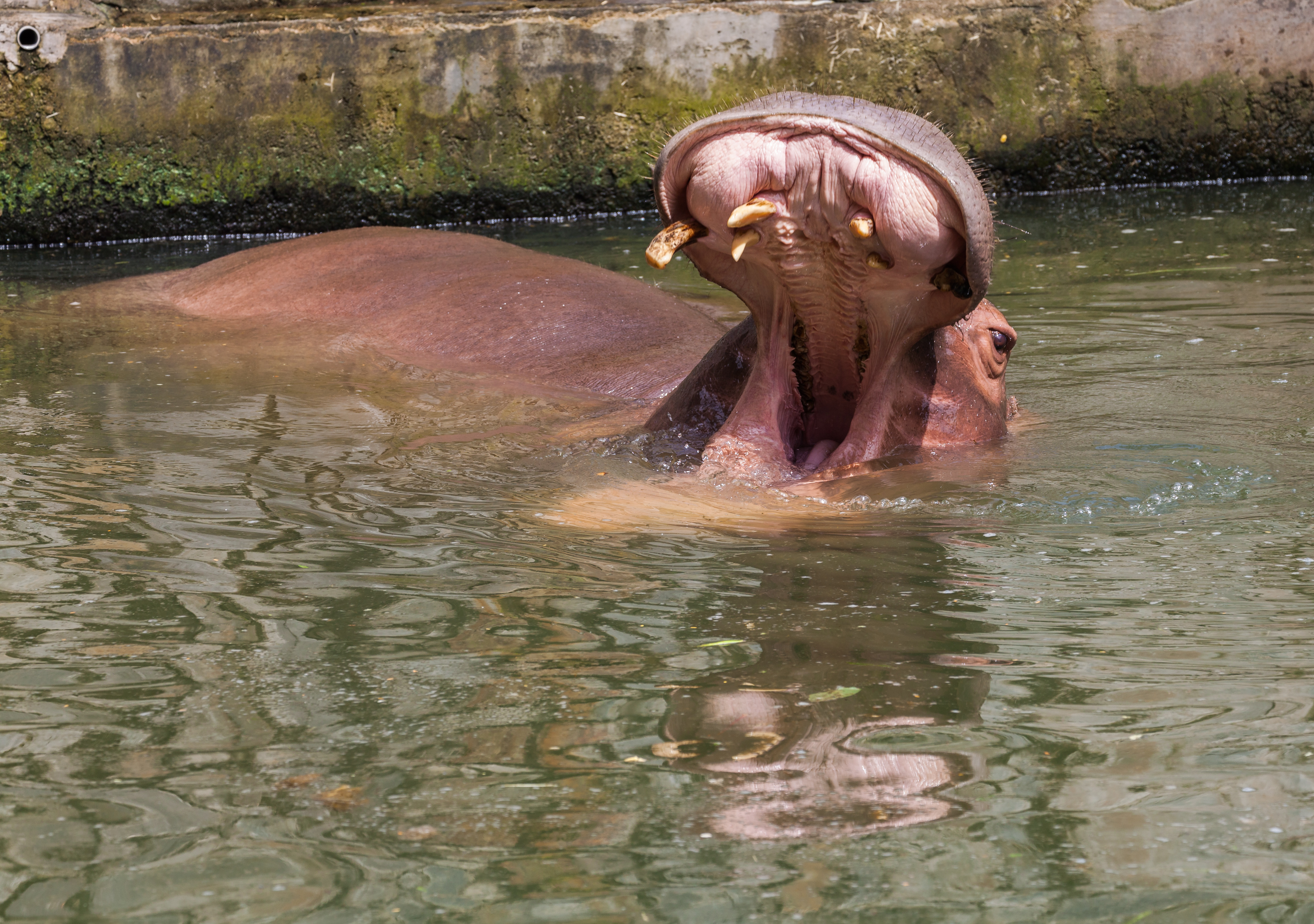 Hippo (Hippopotamus amphibius), Ho Chi Minh City Zoo, Vietnam